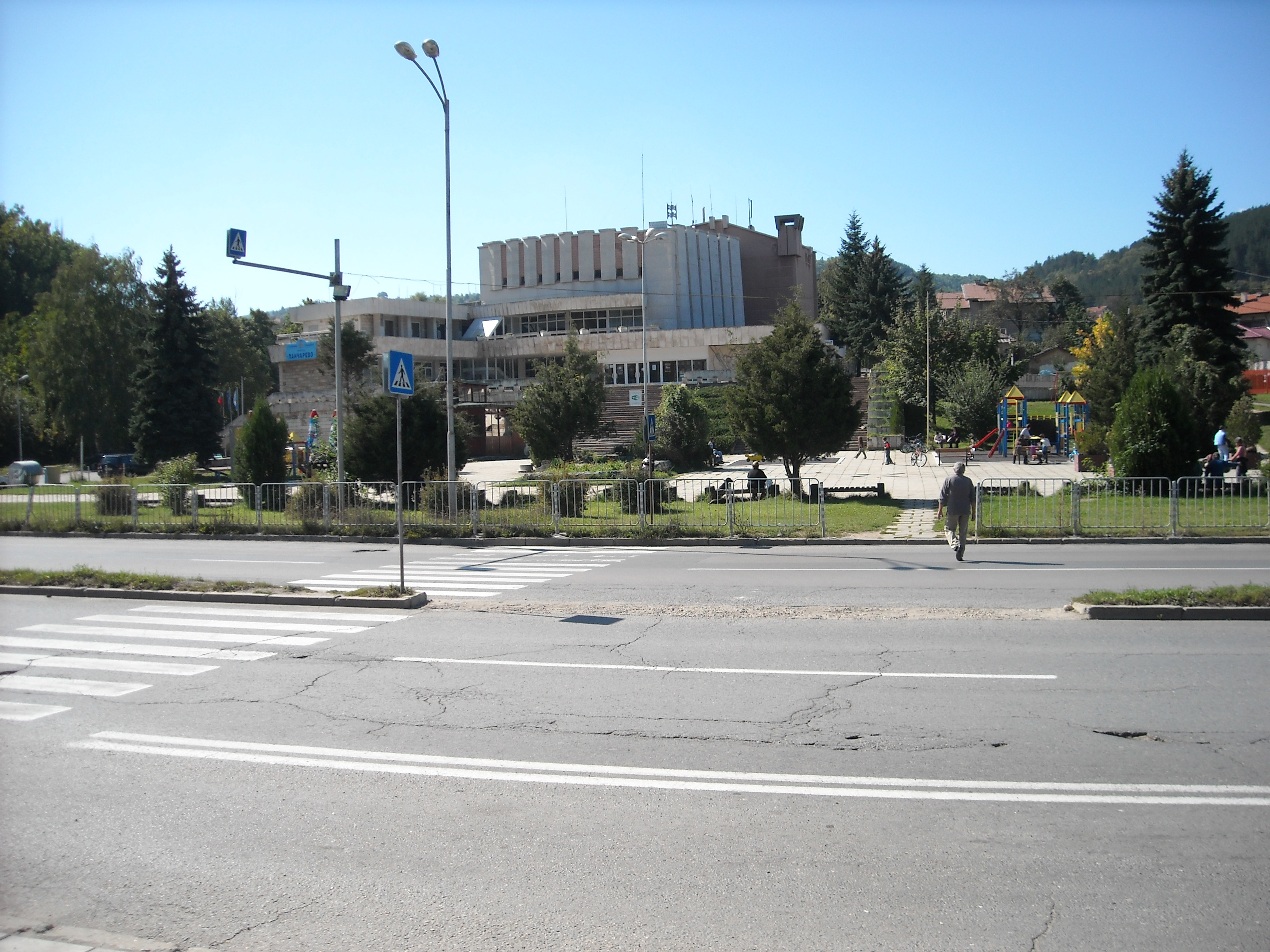 Videlina community centre in Pancharevo, Sofia